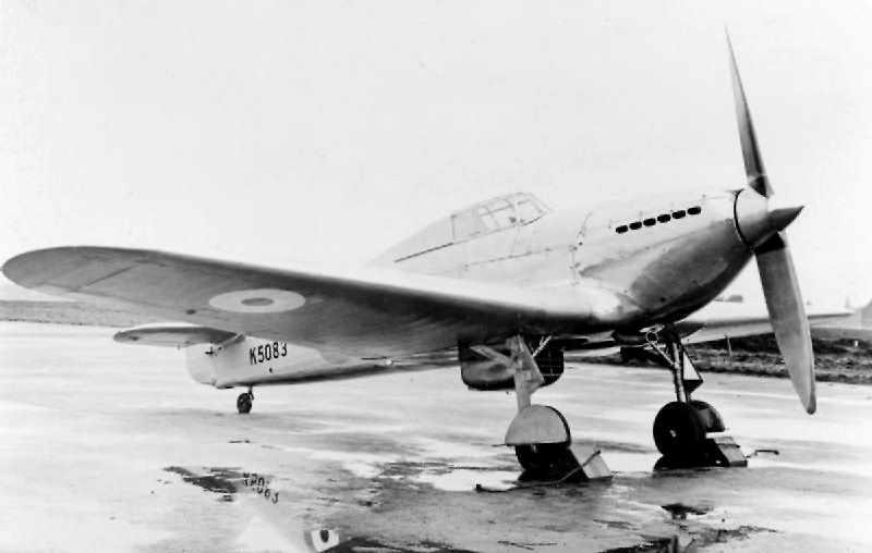 K5083, the prototype Hawker Hurricane. Construction of the first prototype, K5083, began in August 1935 incorporating the PV-12 Merlin engine. The completed sections of the aircraft were taken to Brooklands, where Hawker had an assembly shed, and re-assembled on 23 October 1935. Ground testing and taxi trials took place over the following two weeks, and on 6 November 1935, the prototype took to the air for the first time, at the hands of Hawker's chief test pilot, Flight Lieutenant P.W.S. Bulman.